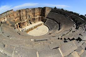 Bosra is located in the Horan Plain and was first mentioned in the 14th-century-BC Hieroglyphics of Akhnatoun and Thutmos III. The city became the capital of the Nabatean kingdom a thousand years later. Bosra also experienced Greek, Roman, and Byzantine reign as well as Arab Muslim and Mongol invasions. Although it was under the control of various cultural groups, the city flourished the most under and was greatly influenced by the Romans, and this is most evident in the Bosra Amphitheater, which is the ancient city’s most impressive feature. The amphitheater was built by the Romans in the 2nd century AD, and despite being converted into a fortress by the Ayubids during the Crusades, the original theater has been miraculously preserved. It can accommodate up to 15,000 spectators and has a stage that is almost 148 feet long and approximately 26 feet deep.